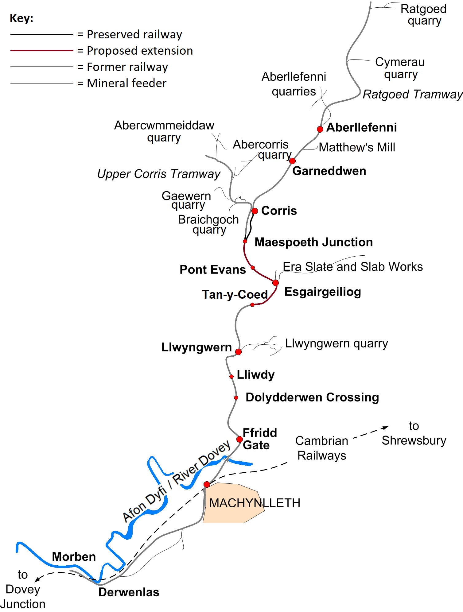 Map of the Corris Railway. Author: Dan Crow